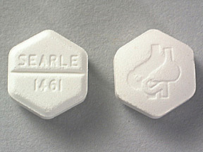 Cytotec pills containing 200 mcg misoprostol (Manufacturer: Searle) Cachets de cytotec (Searle) contenant 200 mcg de misoprostol